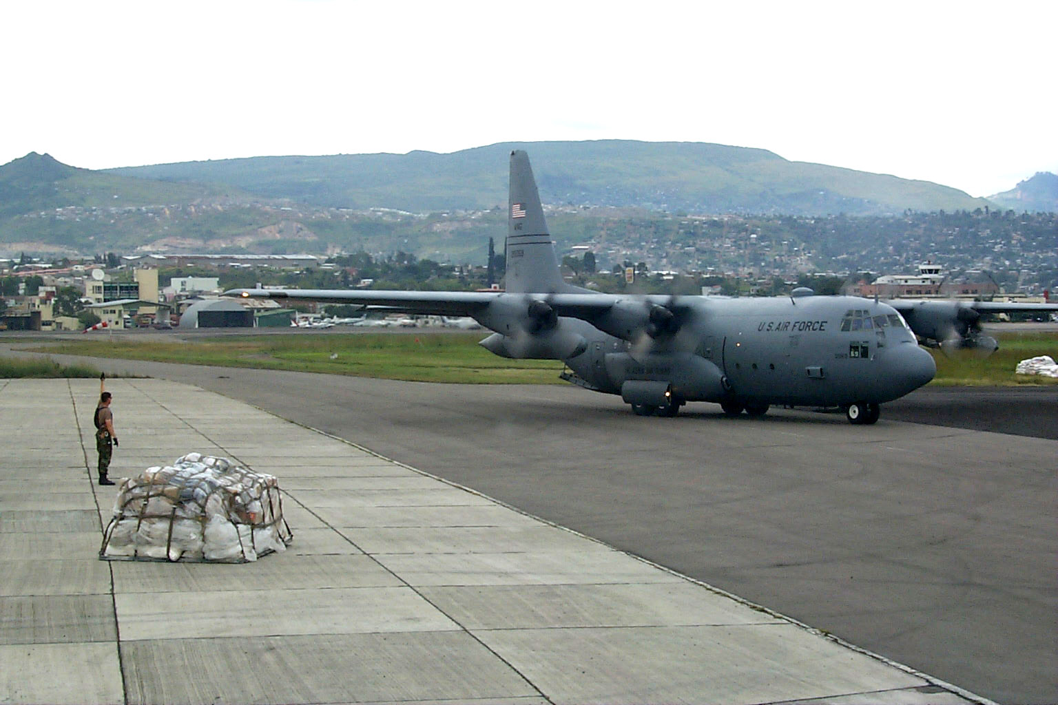 An Alaska Air National Guard C-130 Hercules taxis to the ramp at the airport in Tegucigalpa, Honduras, on Nov. 11, 1998. Over 1,000 U.S. service members are helping to rush food, shelter, pure water and medical aid to the central Americans made homeless by Hurricane Mitch. The Hercules is attached to the 176th Air Wing.